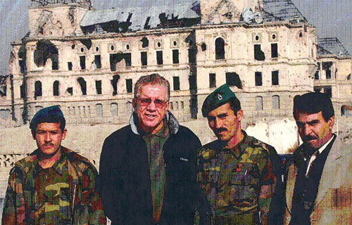 Behgjet Pacolli in Kabul, Afghanistan